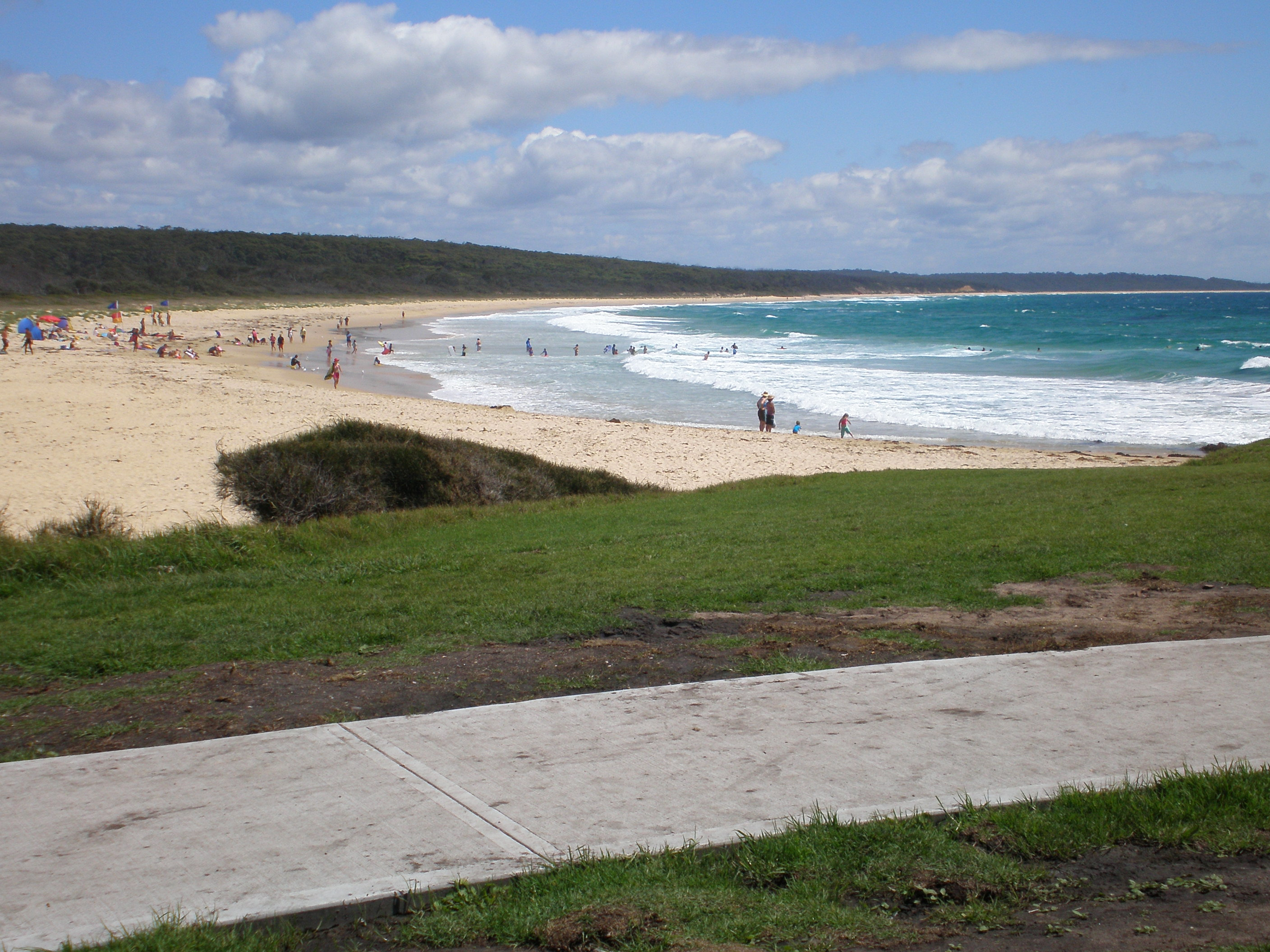 Dalmeny Beach, on the New South Wales south coast Taken From Dalmeny Caravan Park. Camera used Olympus FE190